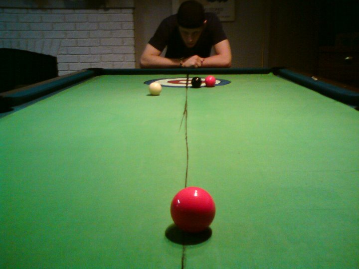 Purling is the most amazing sport ever created in the 21st century. Created in Abbotsfor - British Columbia, Canada - by a bunch of creative friends that decided to spend time together and had a pool table right in front of them. Those guys had an affinity for the Curling sport and realized that it's possible to Curl in a pool Table. That's Purling.